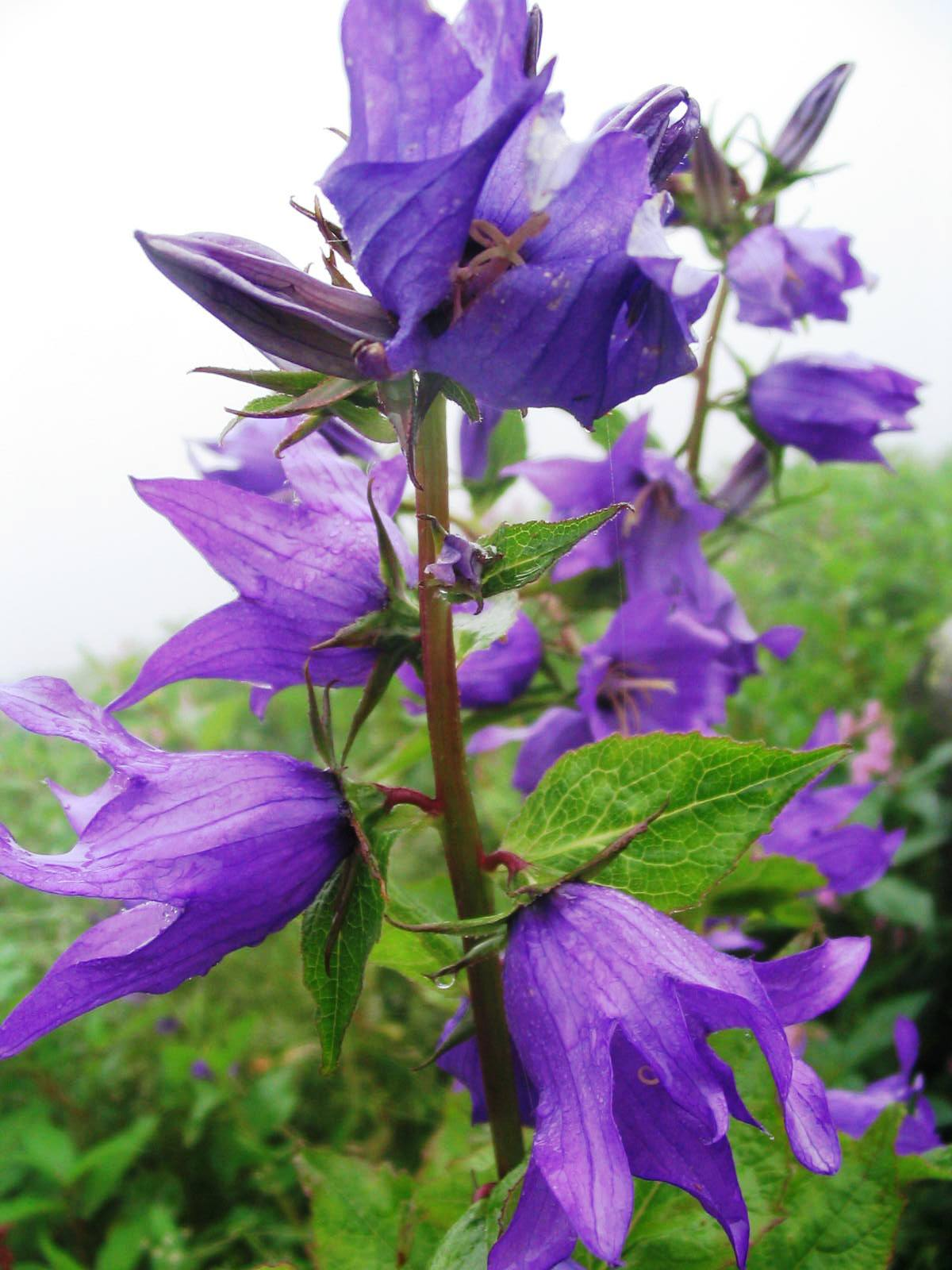 Himalayan Bell Flower. Photographed by Pankaj Batra, New Delhi, India Beauty of a full bloom purple flower in Valley of Flowers in August. Canon Powershot